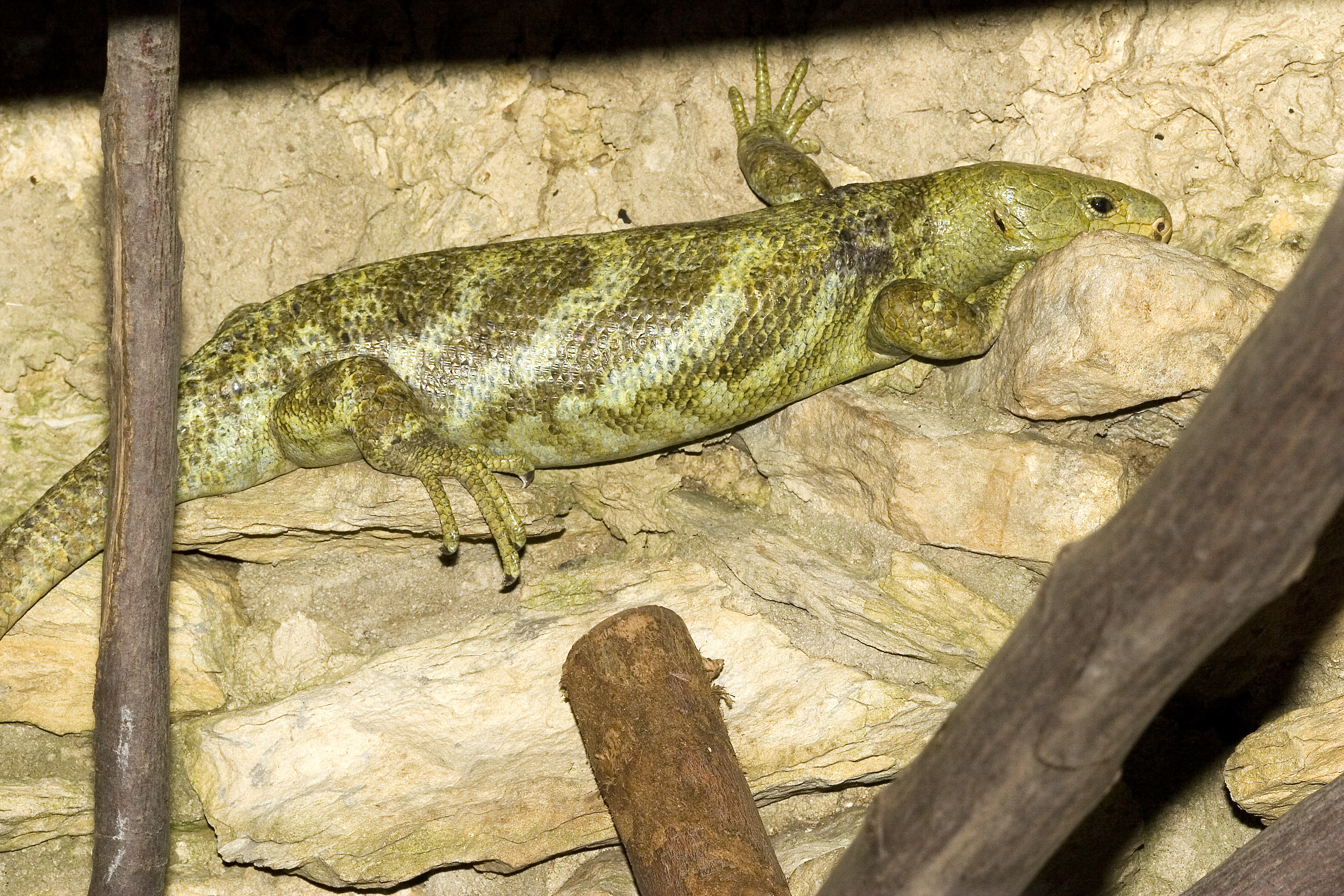 Please report references to .